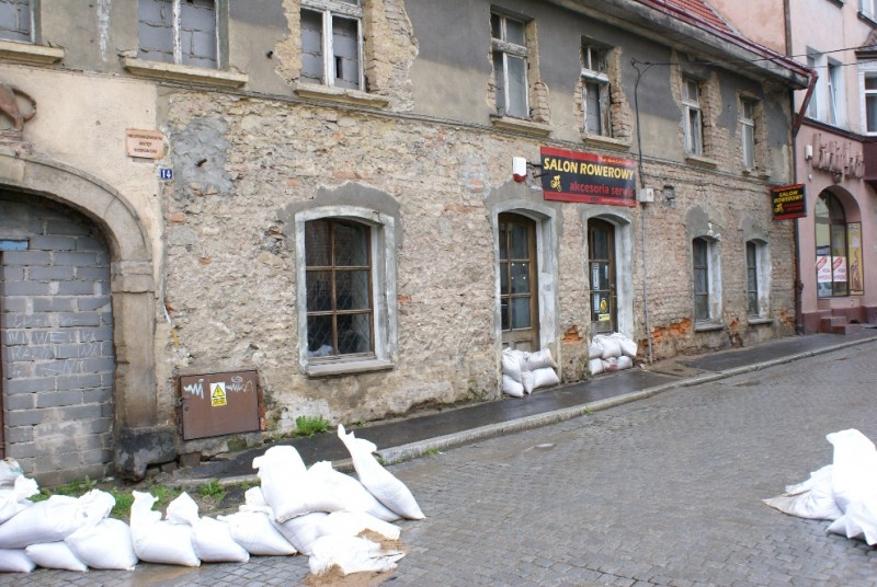 Flood in Kotlina Kłodzka, Poland (2009).